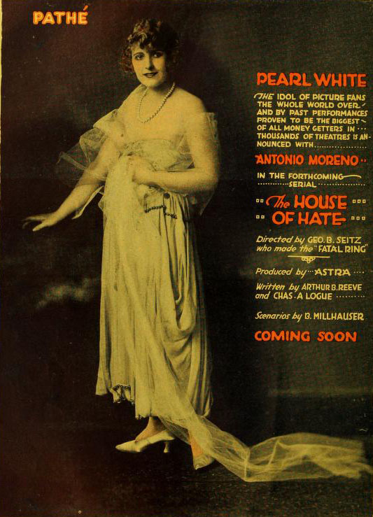 Advertisement in Moving Picture World, January 1918, for the American film serial The House of Hate (1918).